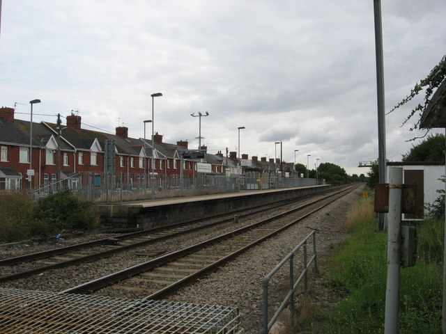 Rhoose up platform, near to Rhoose, The Vale of Glamorgan/Bro Morgannwg, Great Britain. The station has staggered platforms - either side of the level crossing.